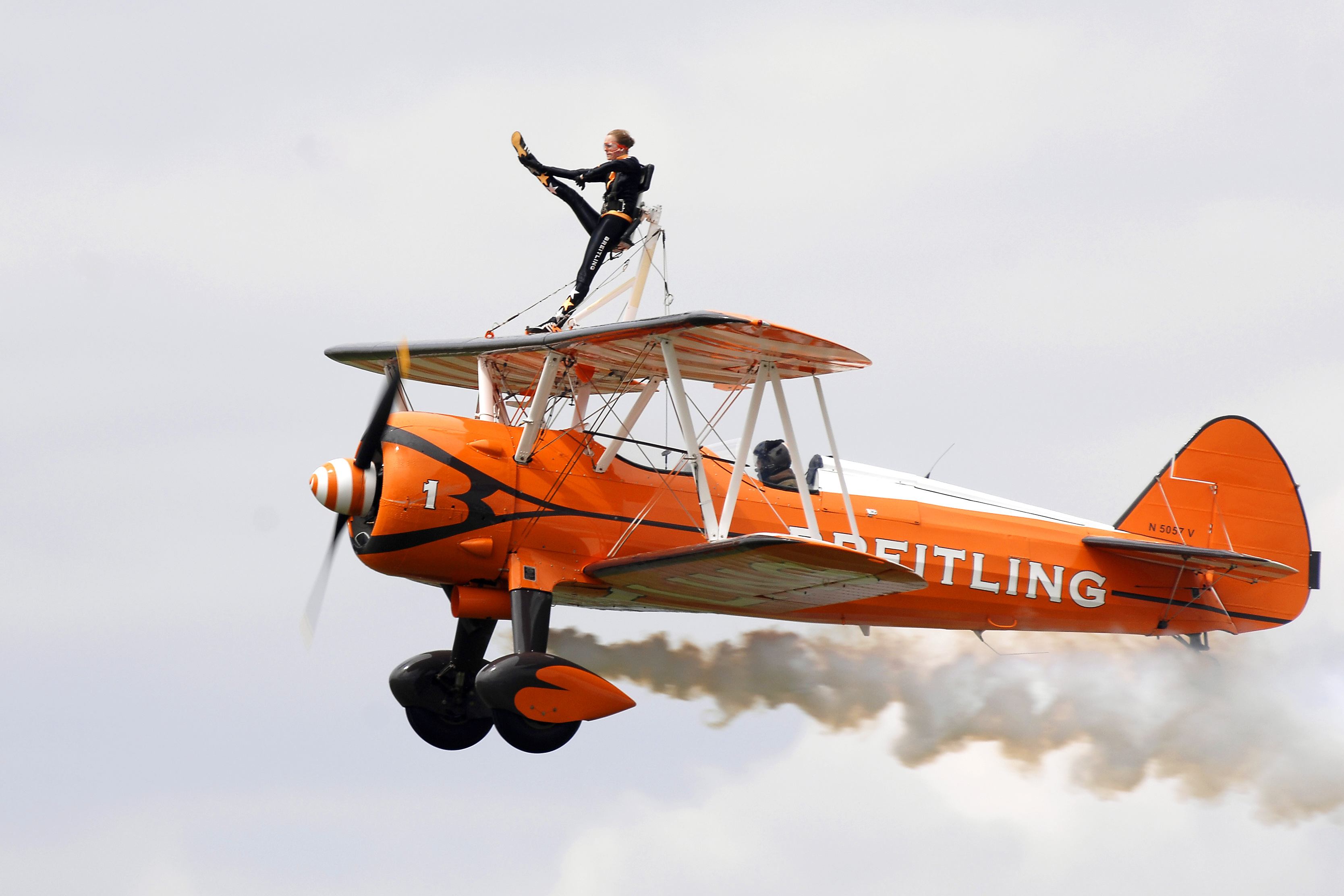 The Breitling Wingwalkers, a British aerobatic wingwalking team, captivate thousands of spectators with an aerial demonstration during the Farnborough International Air Show in Farnborough, England, July 15, 2012.